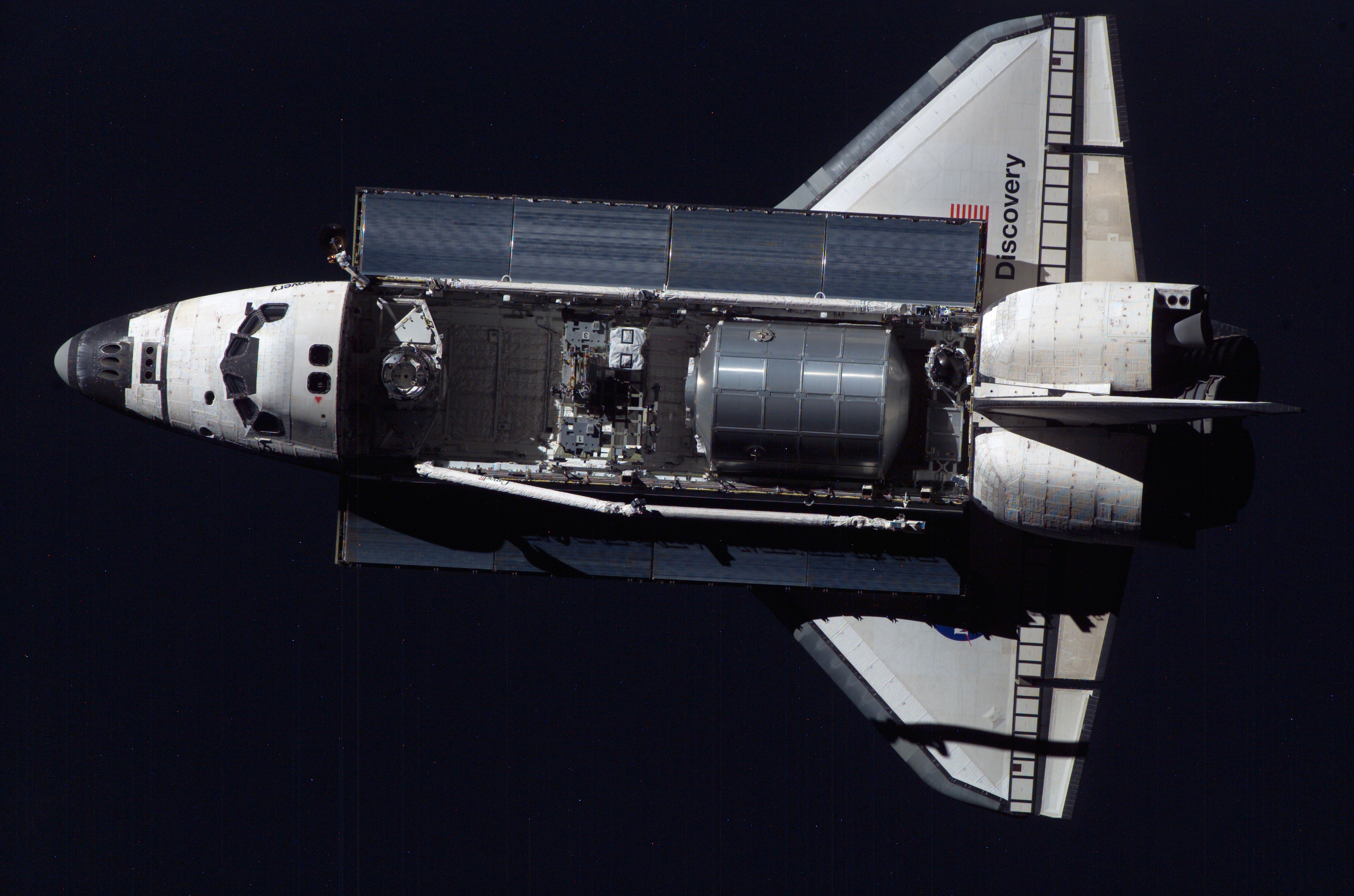 Space shuttle Discovery as seen from the ISS